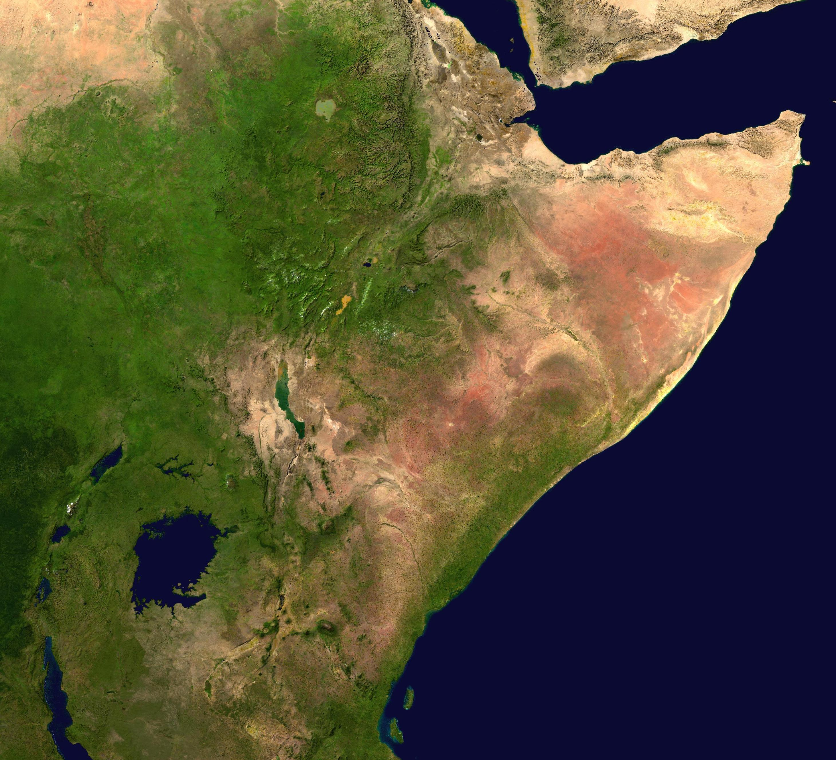 Cropped from :Image:Africa satellite plane.jpg. A composed satellite photograph of Africa.